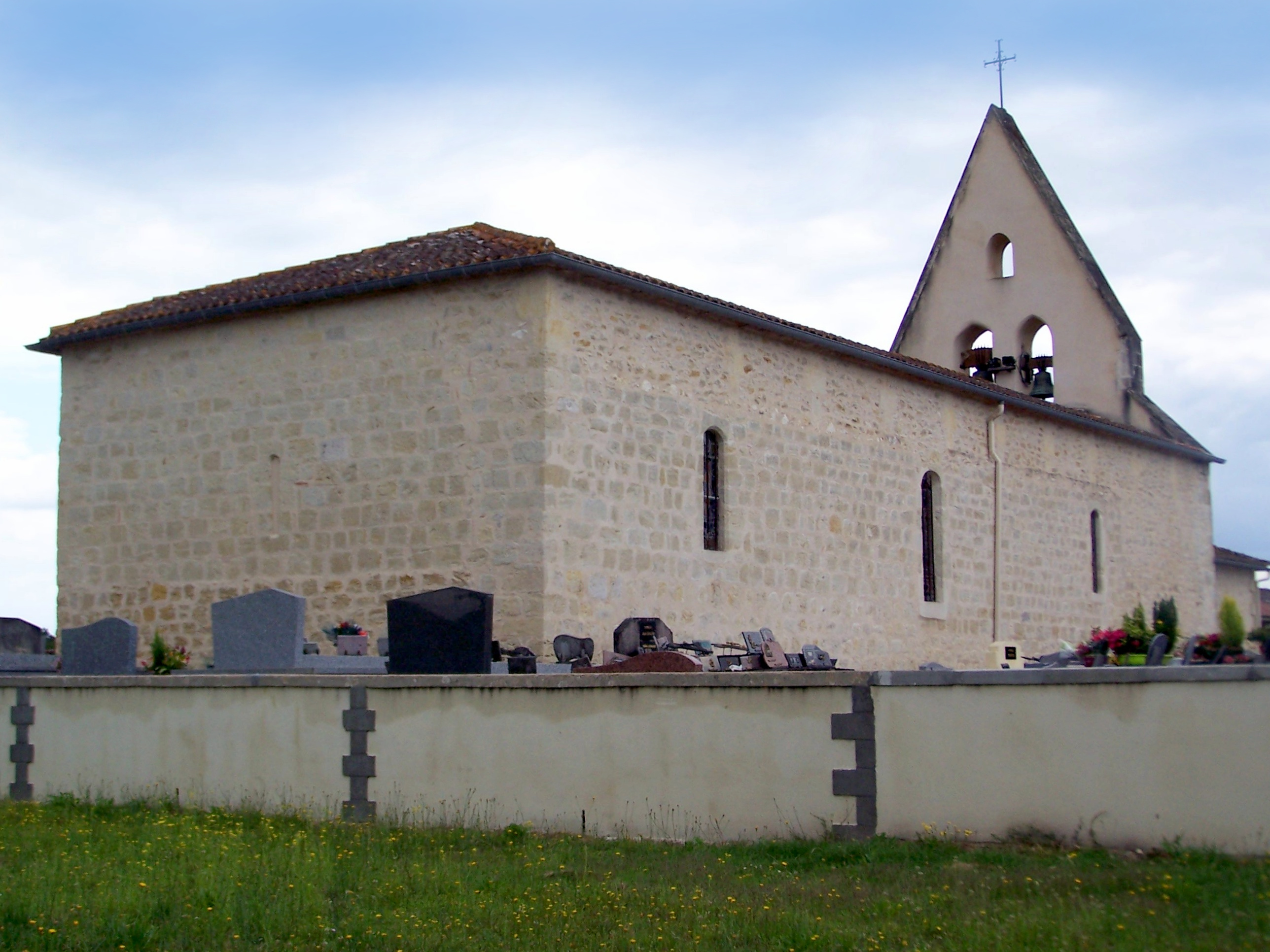 Church Saint-Pierre of Marions (Gironde, France)